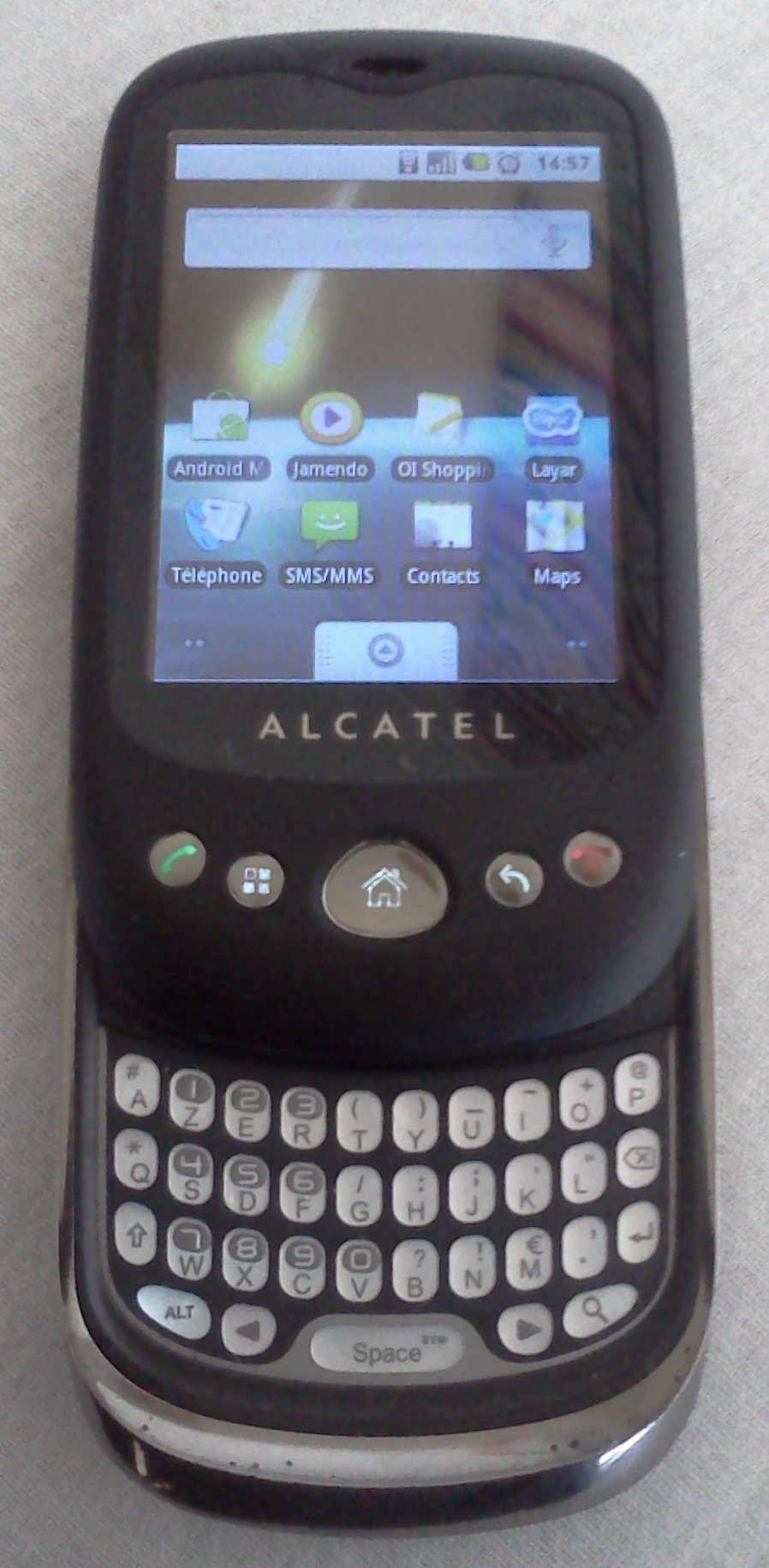 Alcatel One Touch 980 running Android 2.1, with its slide out AZERTY keyboard visible. This unit was sold in France.